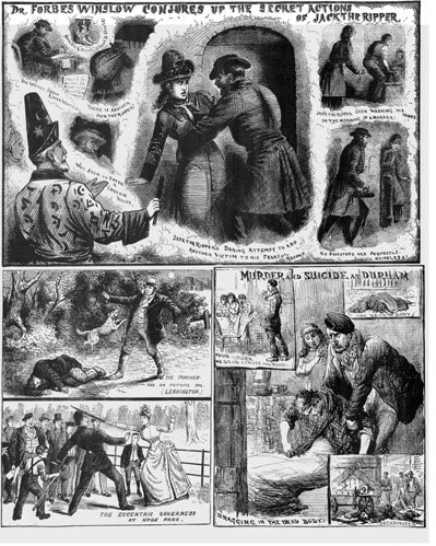 Forbes Winslow conjures up the secret actions of Jack the Ripper, from the Illustrated Police News.